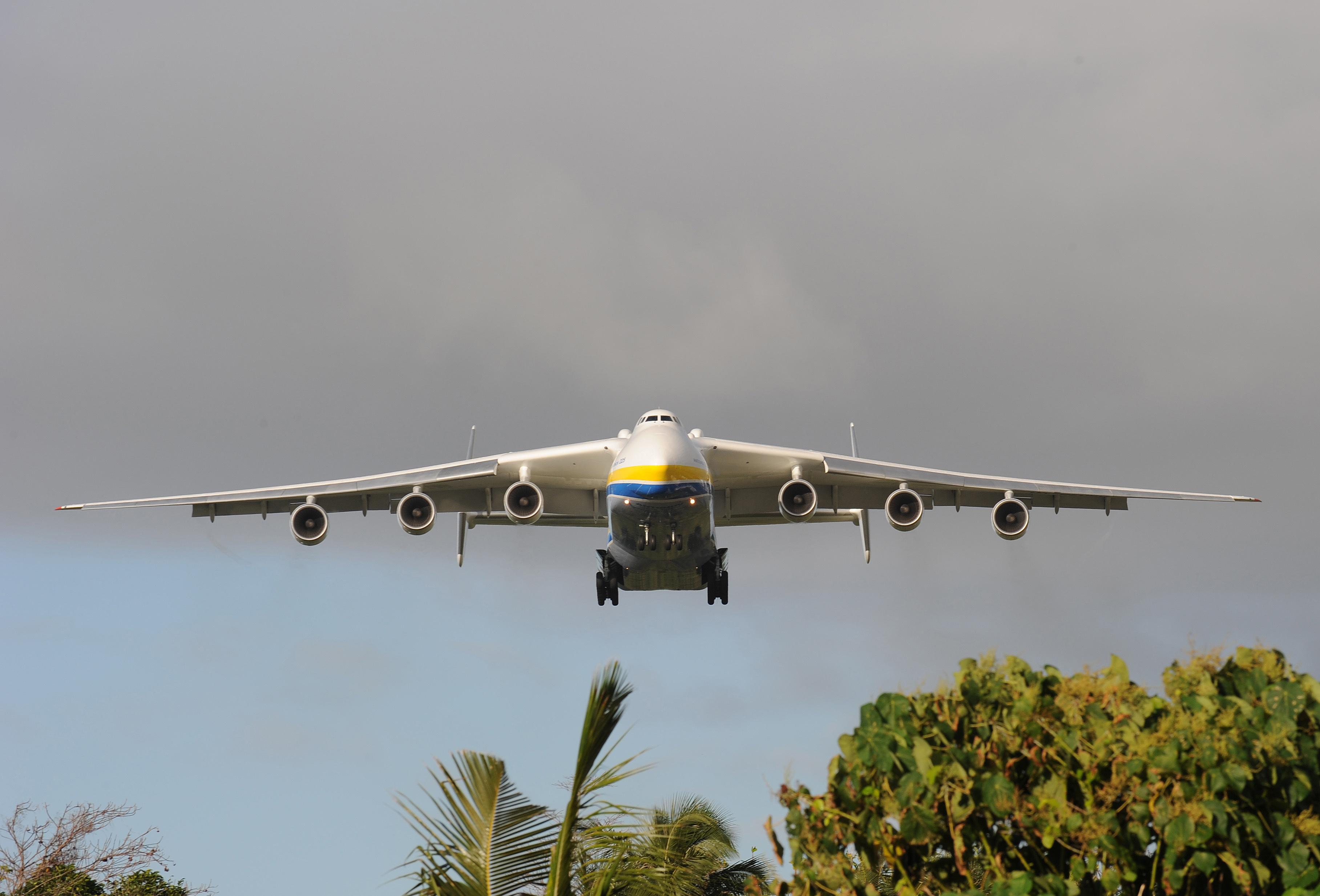 Pago Pago, AS, October 13, 2009 -- An Antonov AN-225 cargo plane, the worlds largest fixed wing aircraft, approaches Pago Pago airport in American Samoa. The cargo plane is the largest in the world and carried generators contracted by the Federal Emergency Management Agency to assist the island with electrical power restoration. Casey Deshong/FEMA